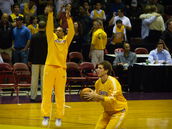 Shannon Brown and Luke Walton of the LA Lakers